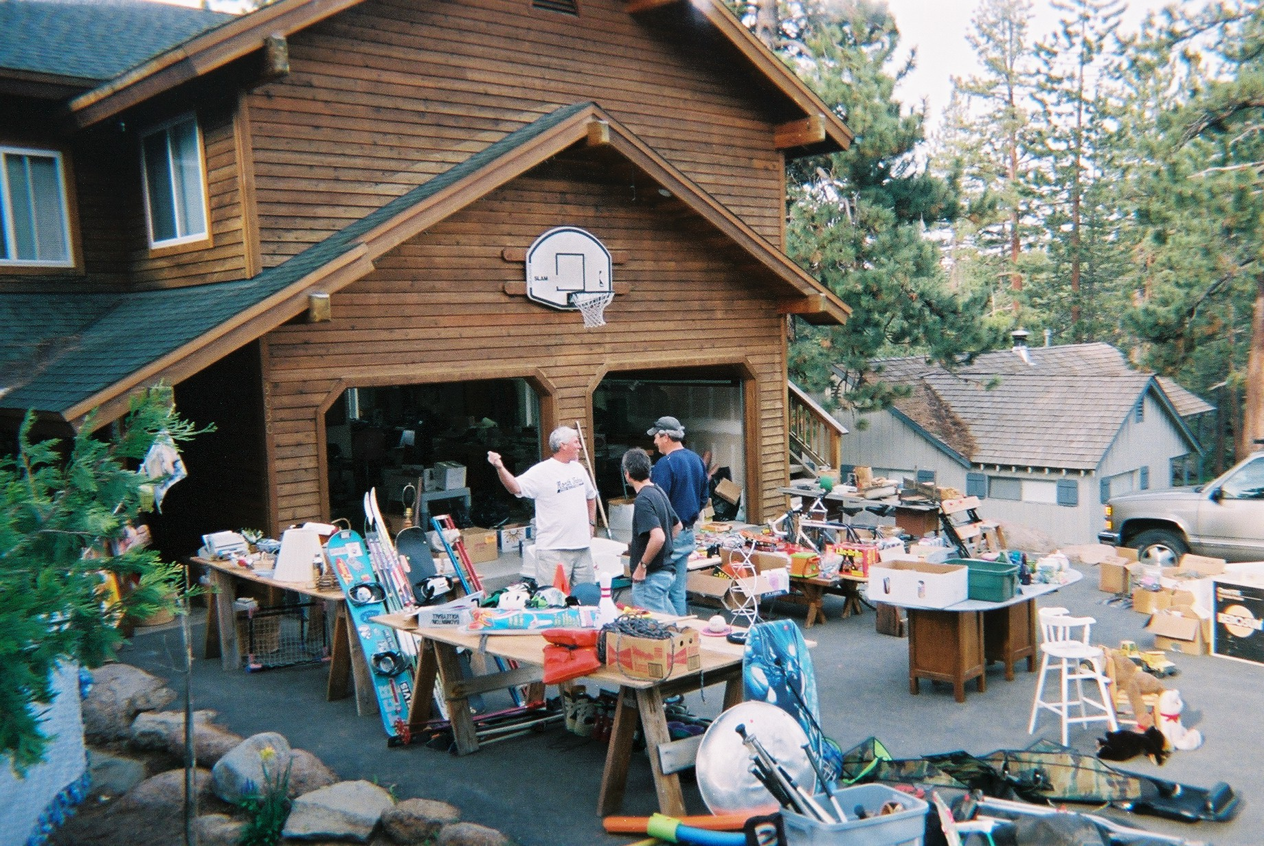 Yard Sale Northern California May 2005. This image is in the public domain.